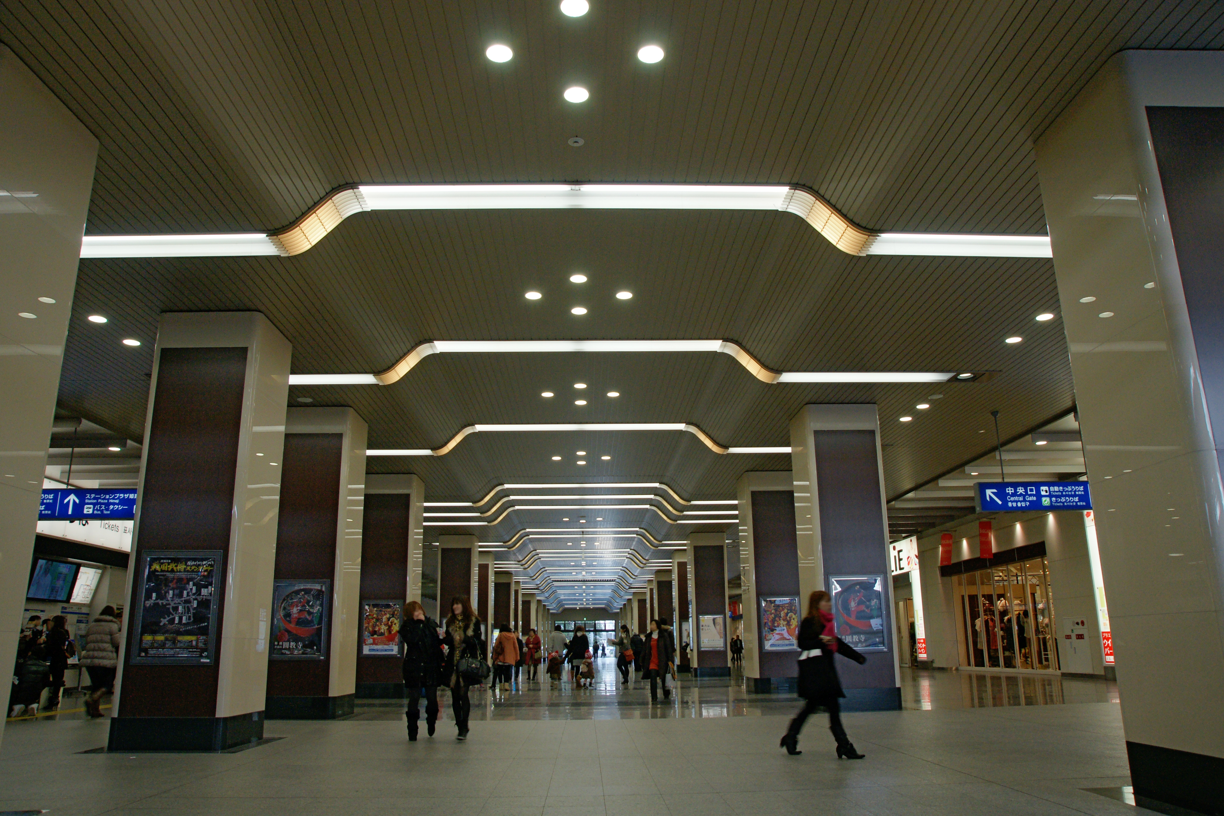 Himeji Station in Himeji, Hyogo prefecture, Japan.